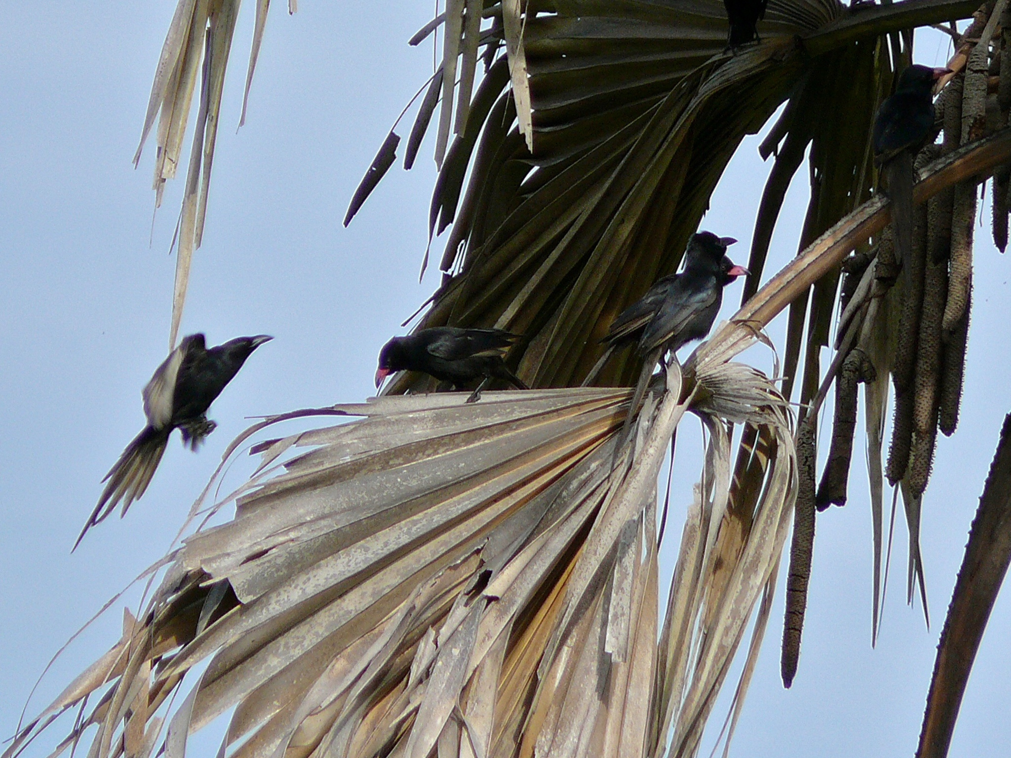 A group of piapiacs (Ptilostomus afer) in an African fan palm (Borassum aethiopum). Murchison's Falls National Park, Uganda.